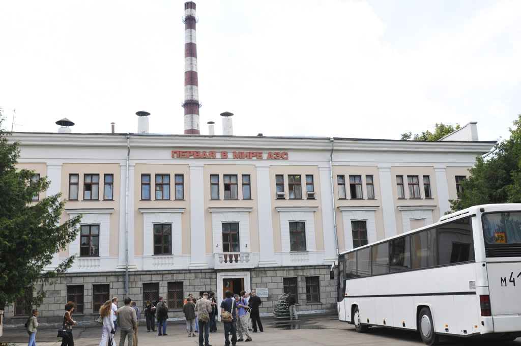 “World's first nuclear power plant in Obninsk”. The world's first nuclear power plant in Obninsk, which was shut down in 2002 to house a nuclear power museum.